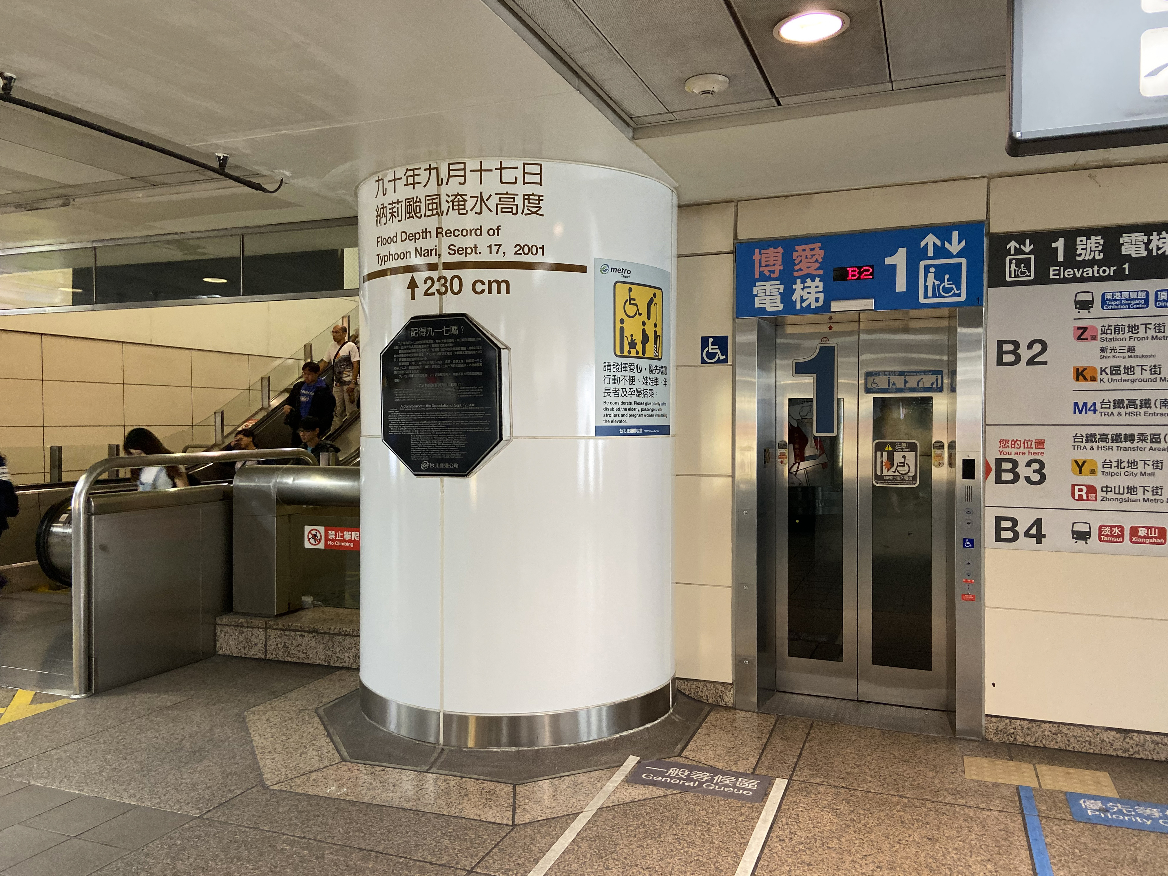 Flood Depth Record of Typhoon Nari, Sept. 17, 2001 in Taipei Main Station, Taipei Metro.